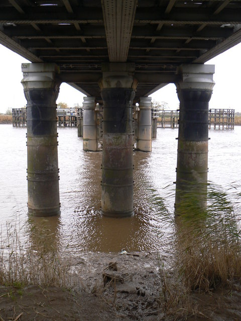 Underside of rail bridge, East Riding of Yorkshire, England.View eastward underneath the rail bridge over the River Ouse between Goole and Hook.